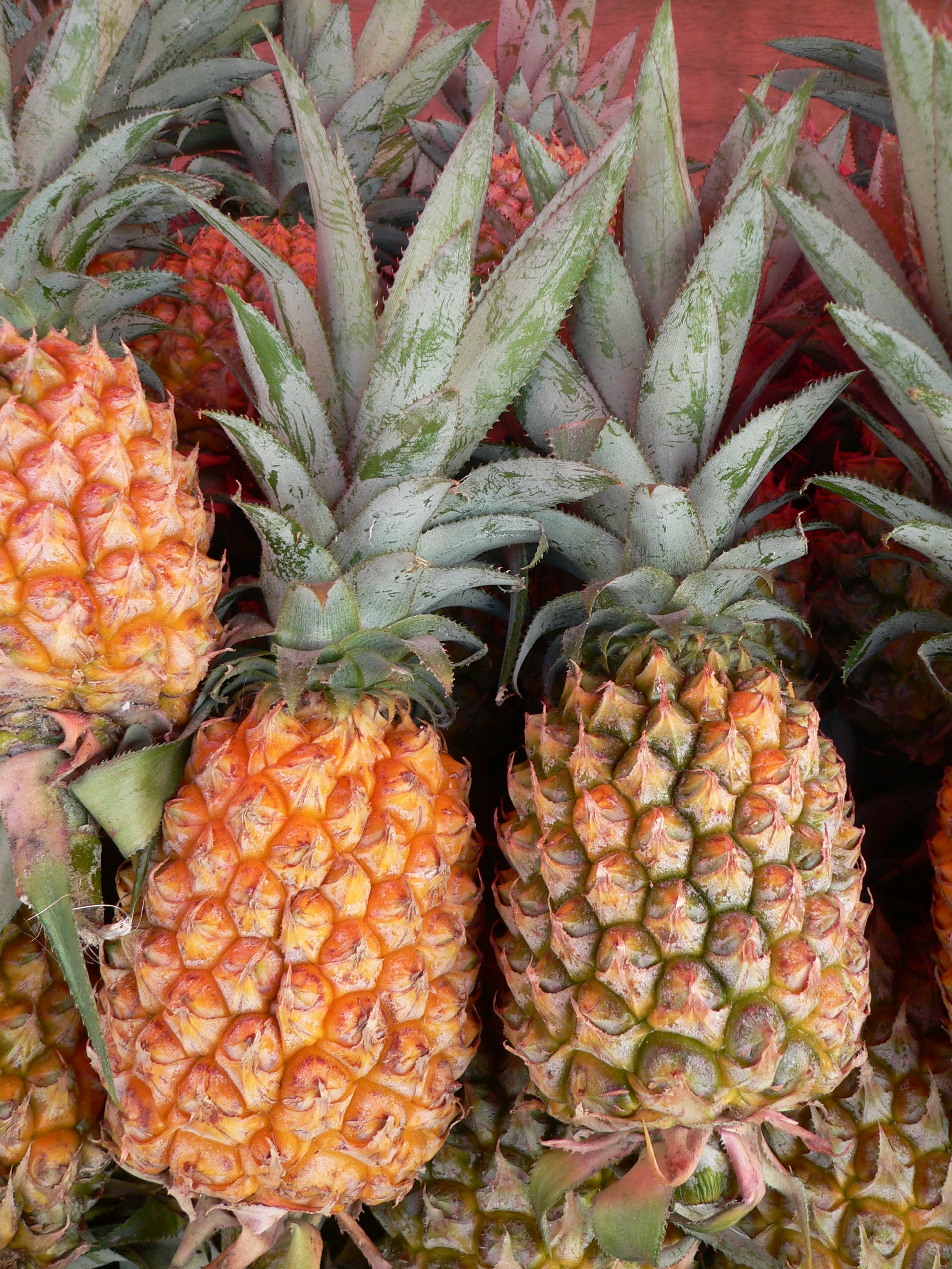 Pineapple (Ananas comosus), 'Victoria' cultivar, on sale on Réunion Island